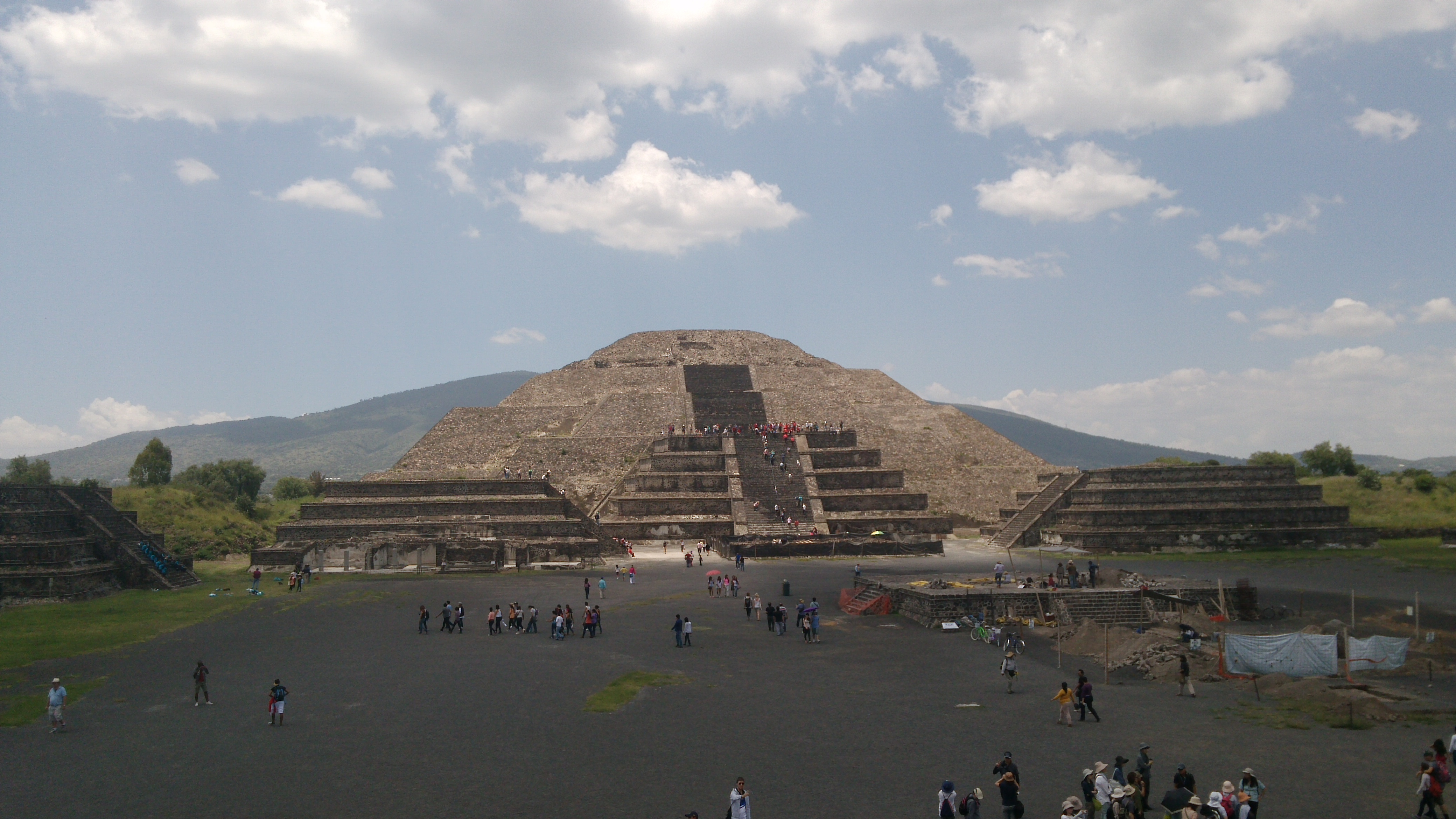 Moon Pyramid in Mexico